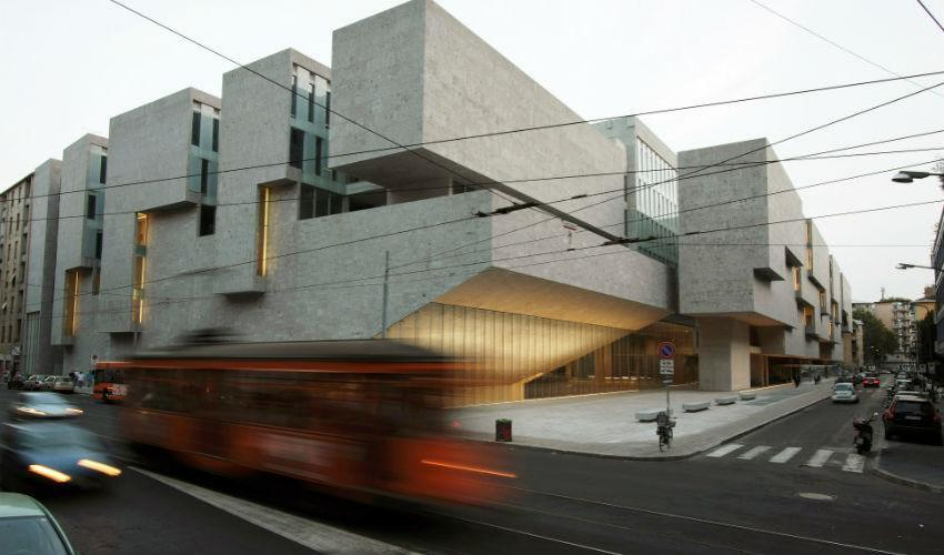 Palazzo Roentgen Viale Bligny Milano Grafton design, Italy